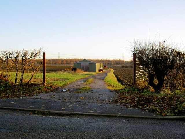 In the Rhubarb Triangle, Lofthouse Gate, Wakefield, West Yorkshire. Agricultural shed on Lingwell Gate Lane.